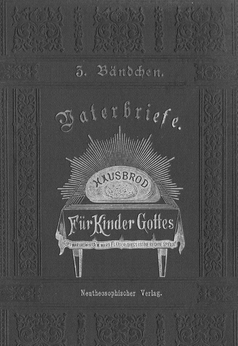 titlepage of the german book "Vaterbriefe 3" published by Neu Theosophischer Verlag 1886